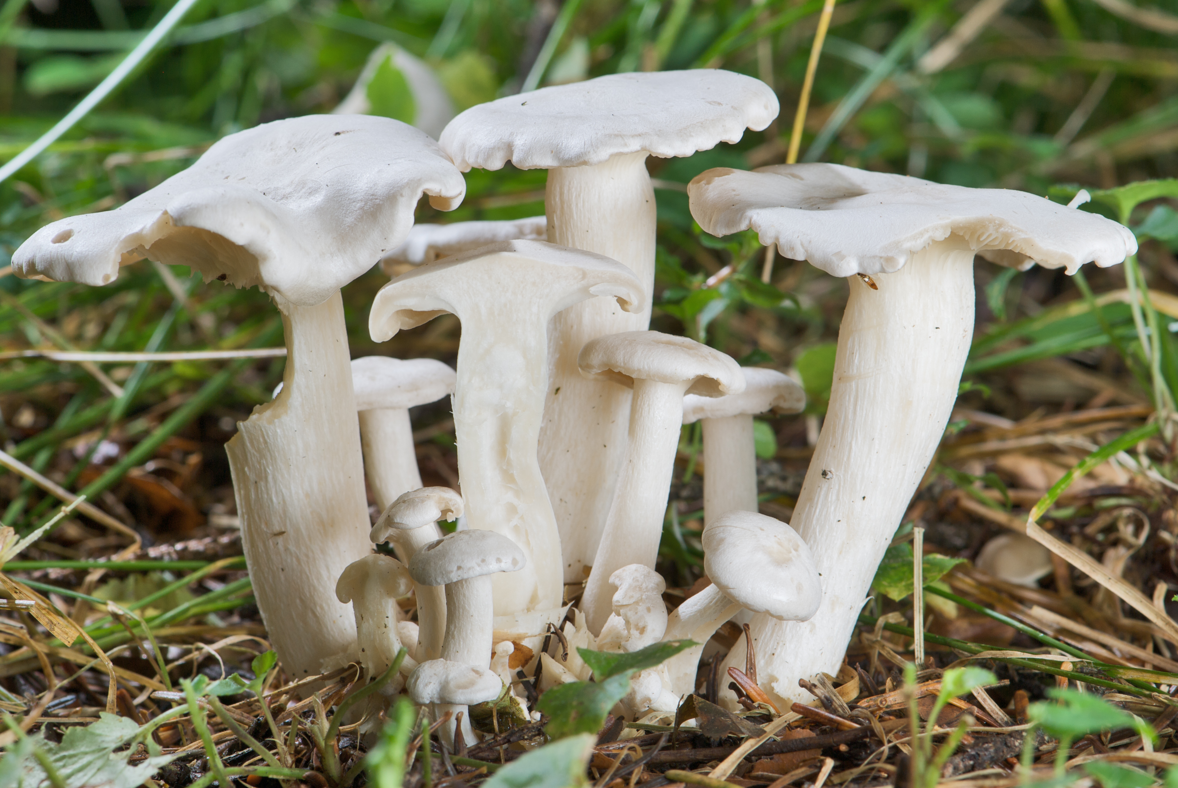 Lyophyllum connatum is a fungus of the genus Lyophyllum. The sporocarps in the picture are still in the early stage of their development (about 5 days of growth) with the largest ones measuring about 100 mm in height. A single specimen of the group was cut apart to expose its interior and mycological characteristics.